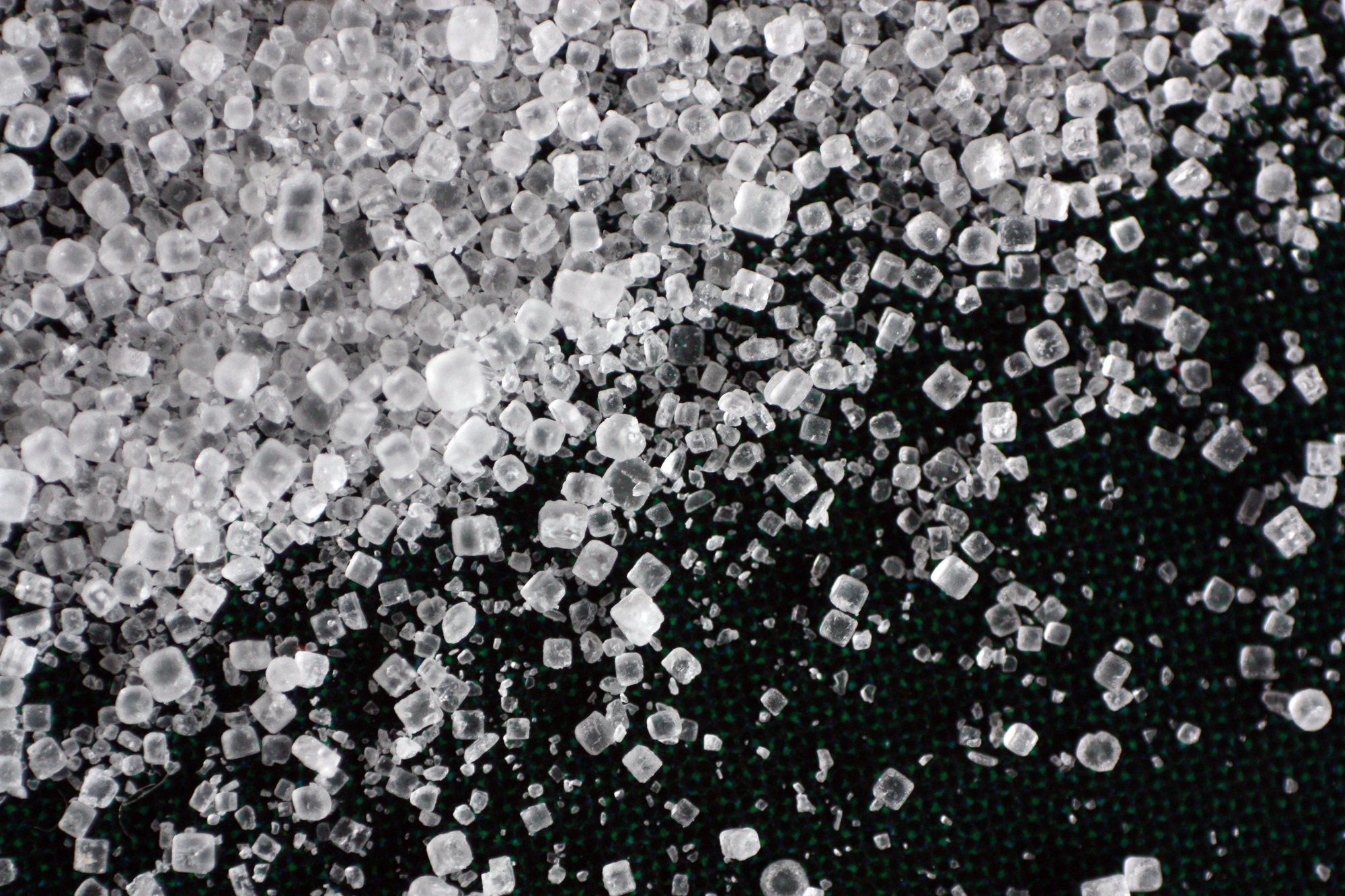 Table salt under magnification